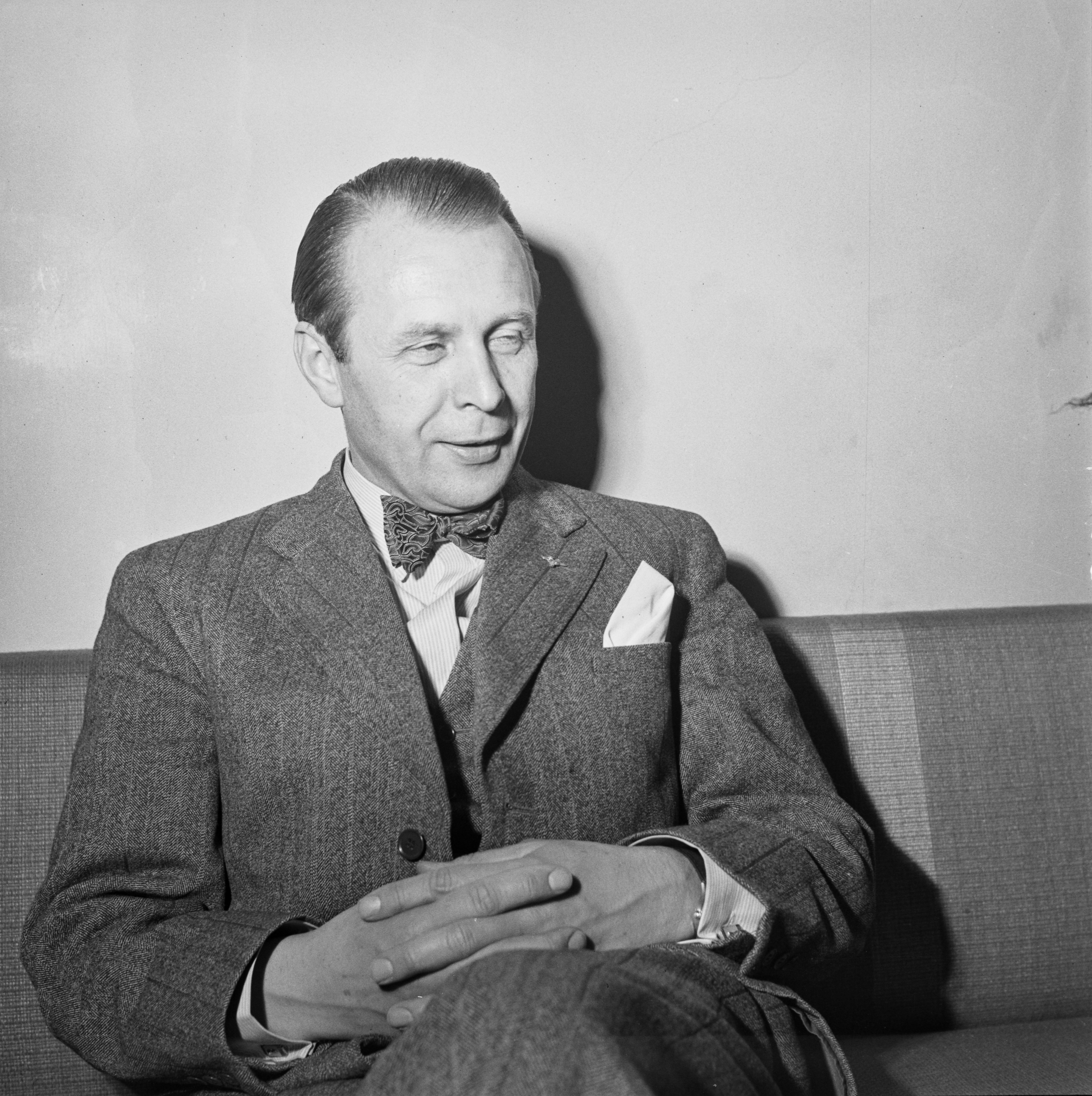 Photograph of the Finnish mayor (Lahti) and economist Olavi Kajala (1905–1967).